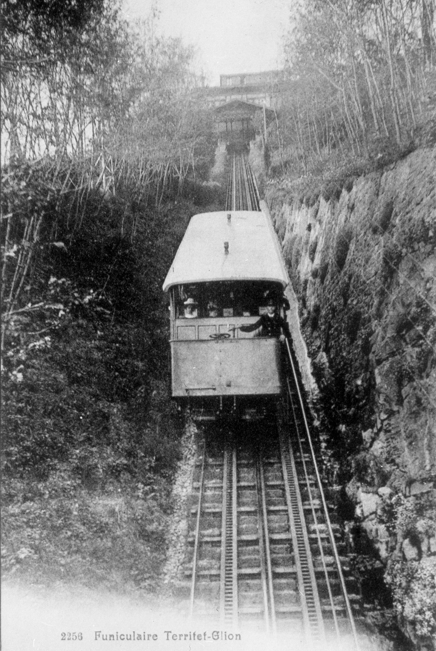 Territet-Glion funicular railway, circa 1900